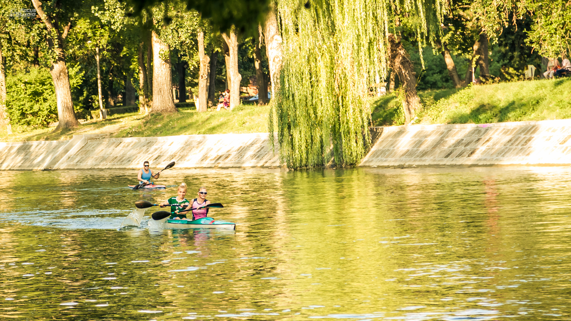 Bega Canal (Canalul Bega)